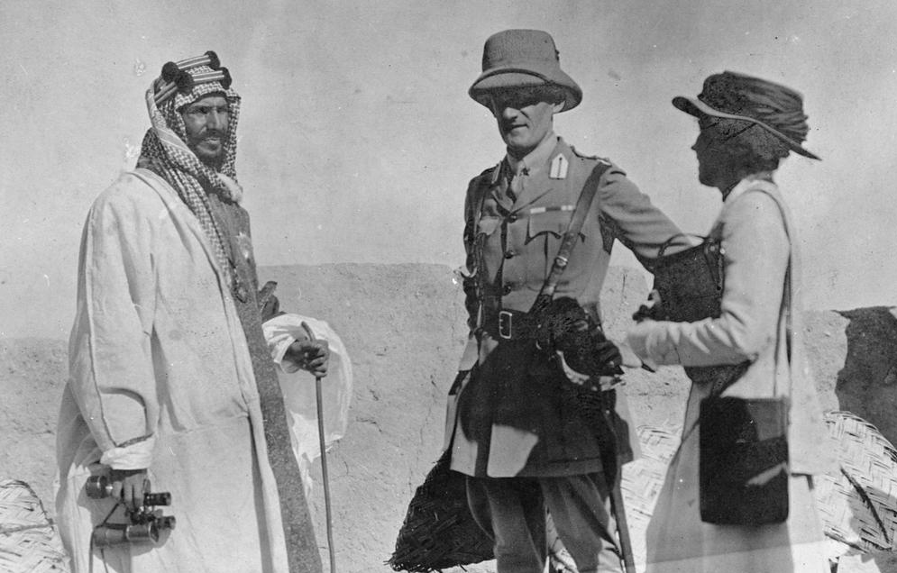 Sir Percy Cox with the founder of Saudi Arabia 1916 The Arabian desert